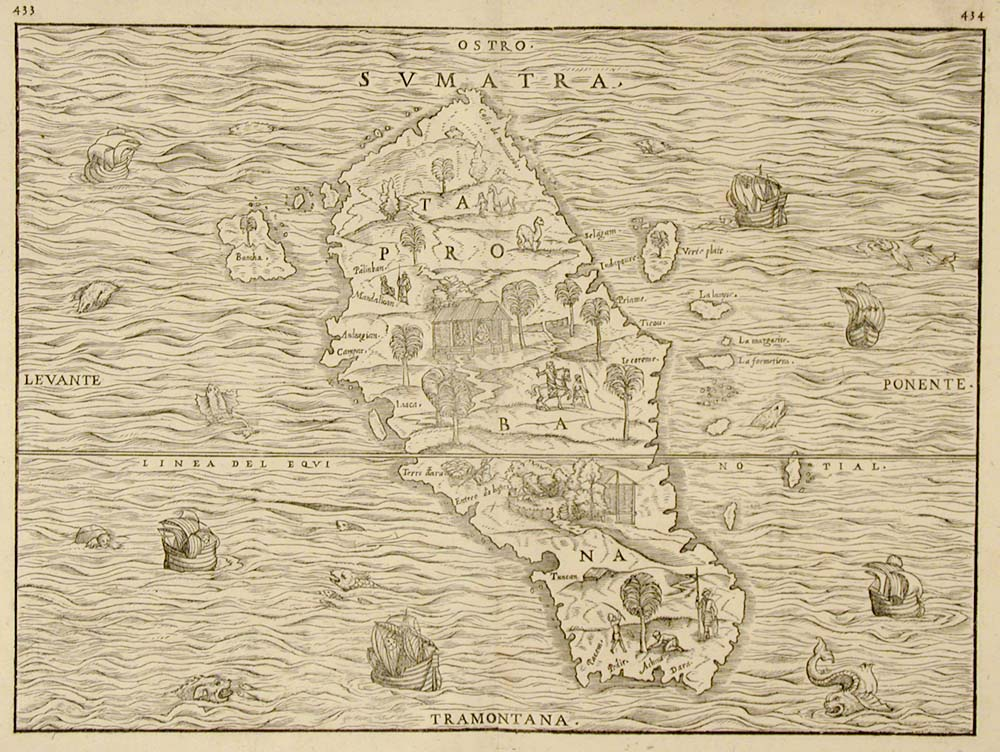 Published in v. III of Ramusio's Navigationi e Viaggi.